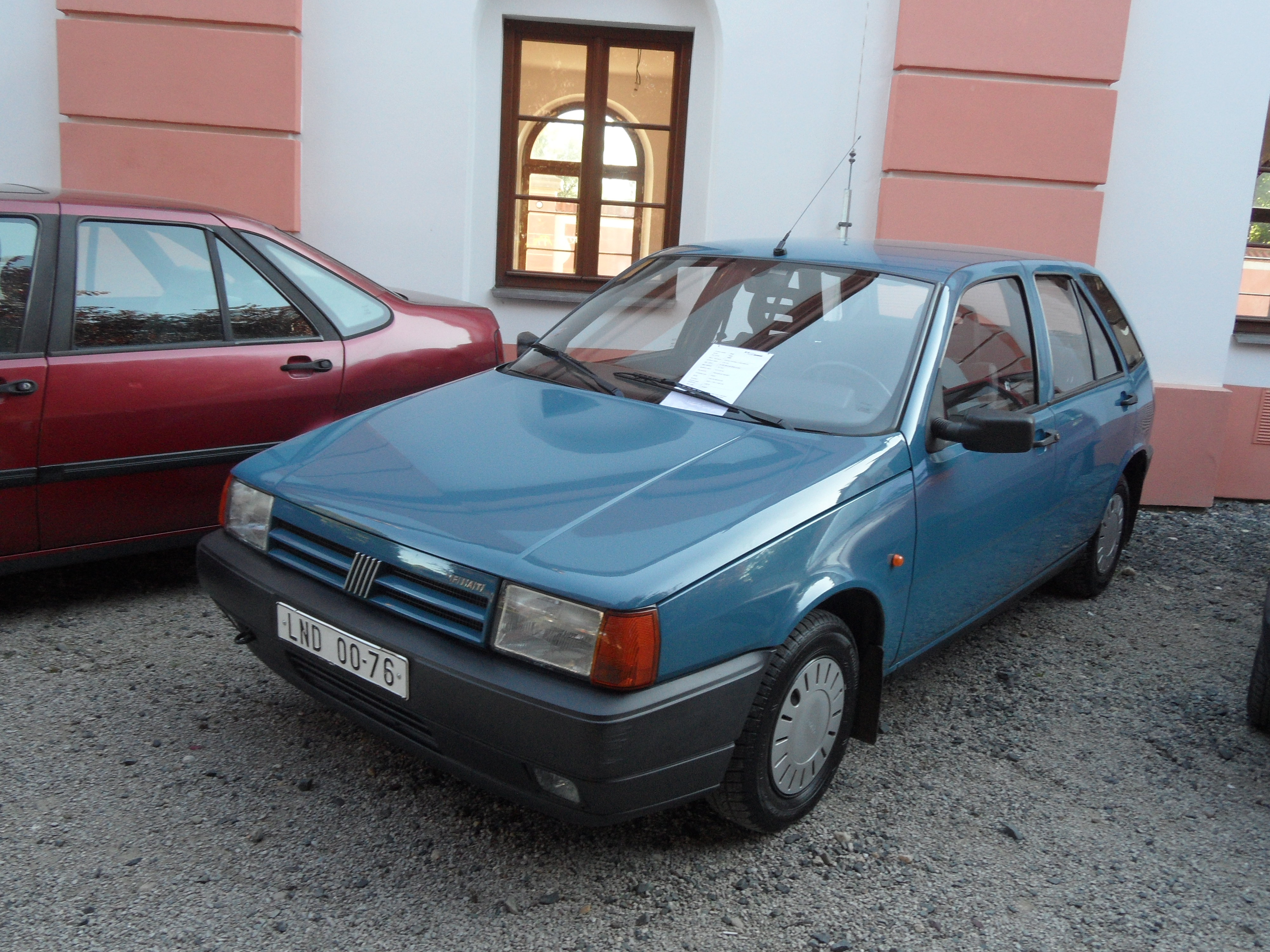 Celebrating the 120th anniversary of the founding of FIAT. K. Cars from 1980s and 1990s: FIAT Tipo, 1989. Four-engine, 1372 ccm. Troja Palace, Prague, the Czech Republic.